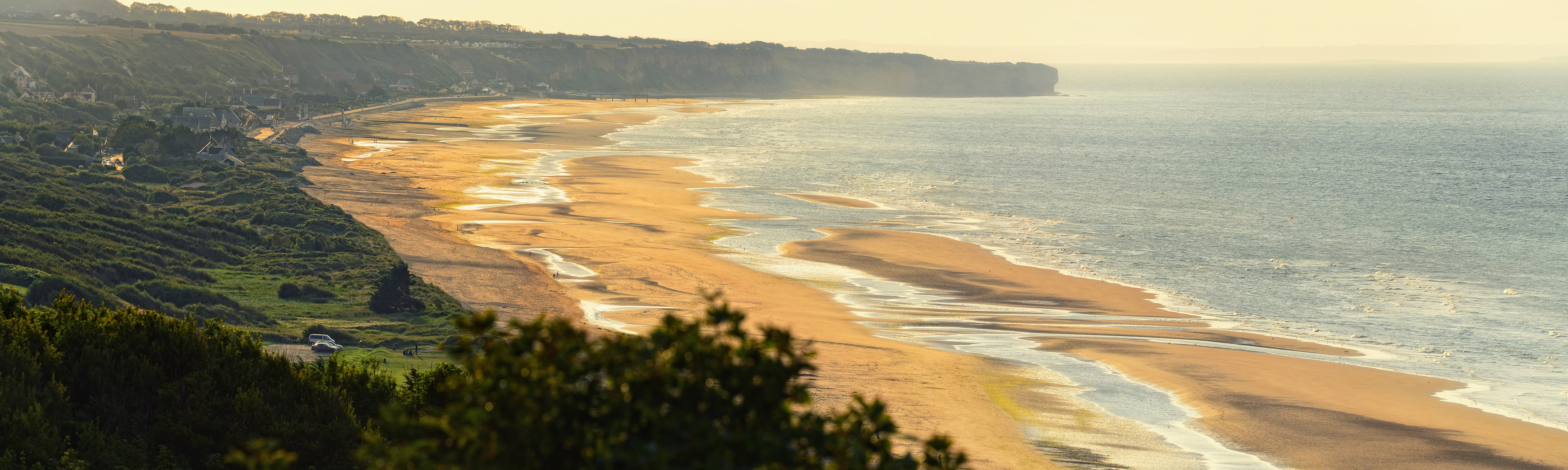 Omaha Beach landscape nowadays